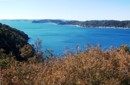 Pittwater_from_Ku-Ring-Gai_Chase_National_Park, taken from opposite Stokes Point